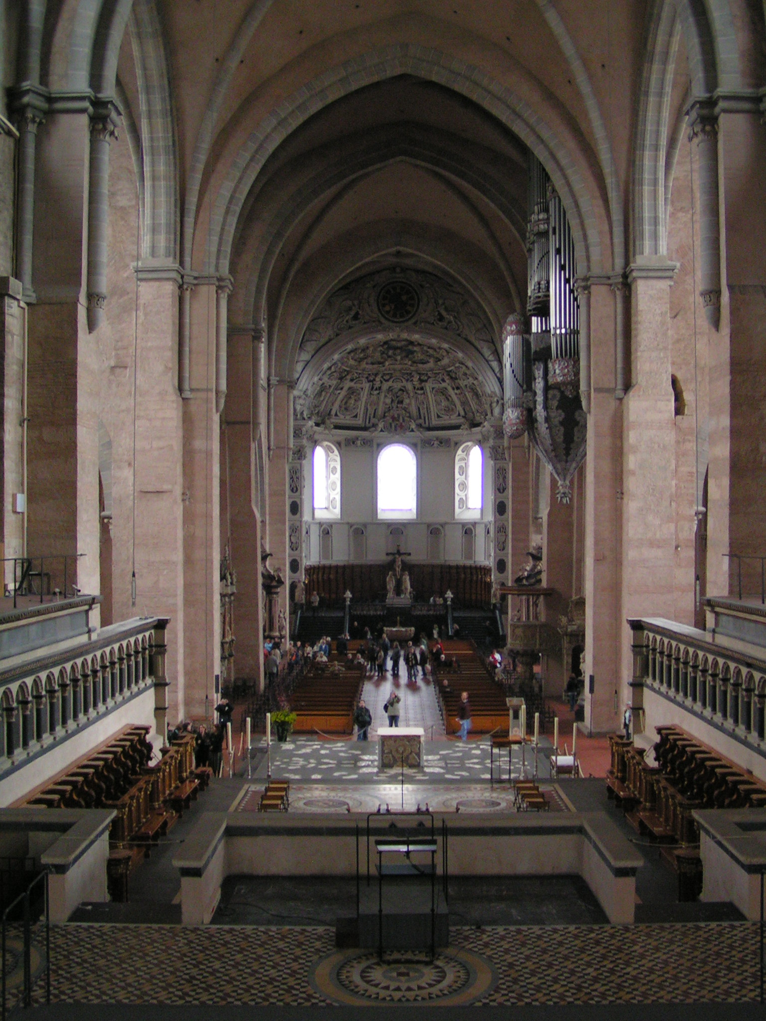 Cathedral of Trier, Rhineland-Palatinate, Germany